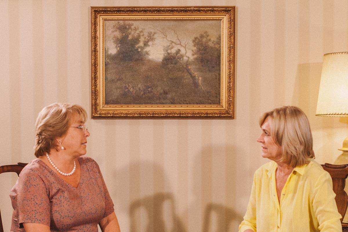 Michelle Bachelet recibió a Evelyn Matthei en hotel Plaza San Francisco 15/12/2013